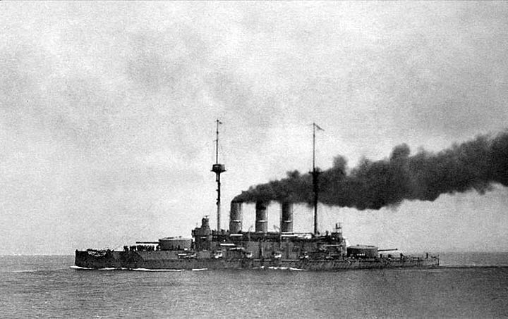 The Imperial Russian battleship «Ioan Zlatoust».